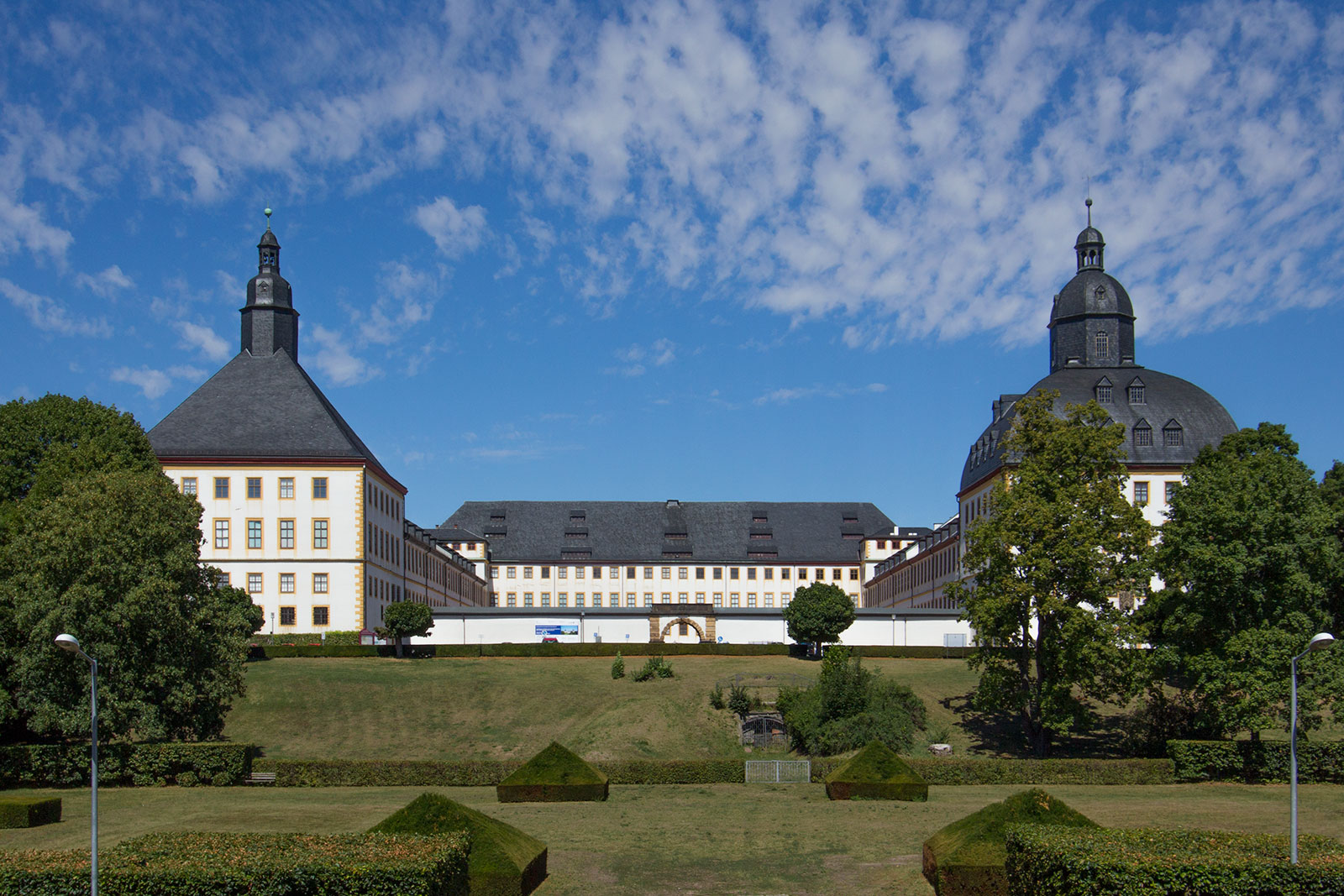 Gotha, Friedenstein Palace, view from the south